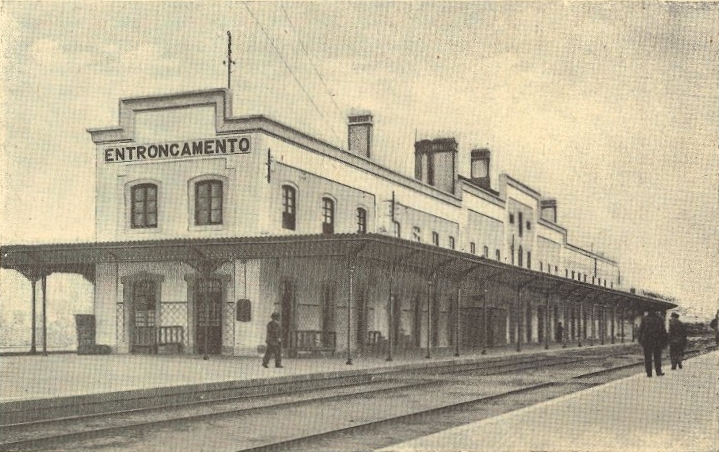 Entroncamento Railway Station, in the Norte and Beira Baixa Railways, in Portugal. This photograph was originally published in the Gazeta dos Caminhos de Ferro No. 1178, of the 16th January 1937, and scanned by the Hemeroteca Municipal de Lisboa.